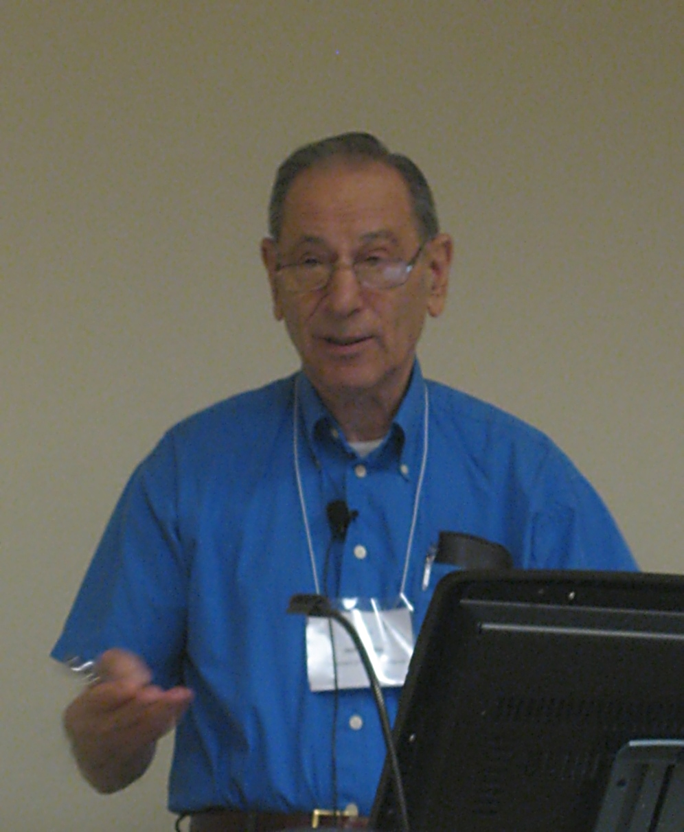 Jack Minker, an American computer scientist giving an invited talk at LPNMR 2007 in Tempe, Arizona, USA.